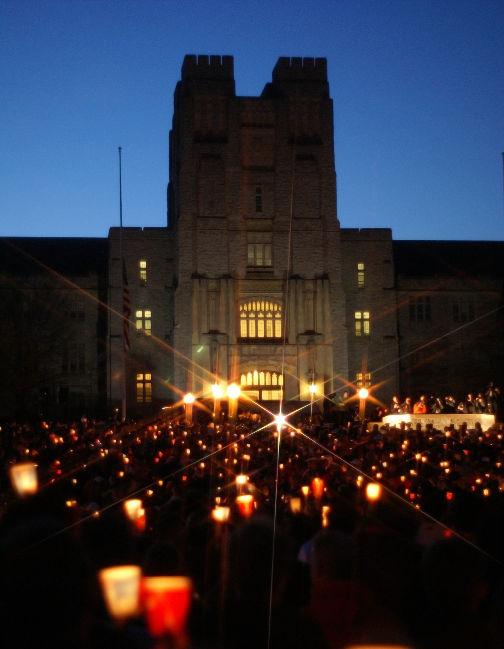 1000 points of light - Students at Virginia Tech hold a candlelight vigil after the Virginia Tech massacre